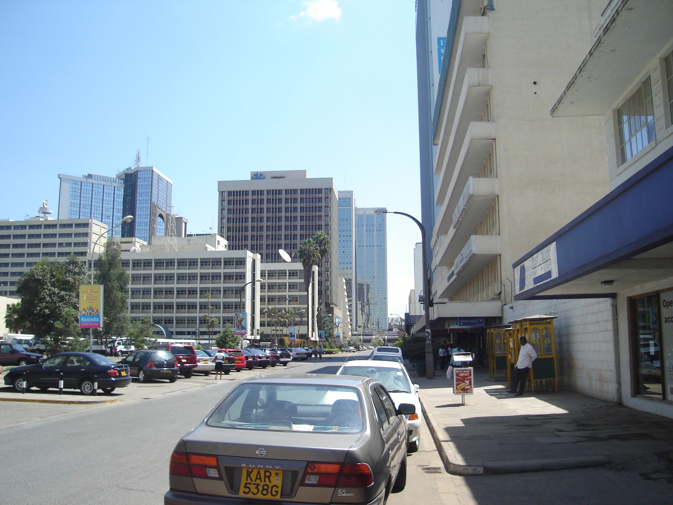 Beautiful City of Nairobi